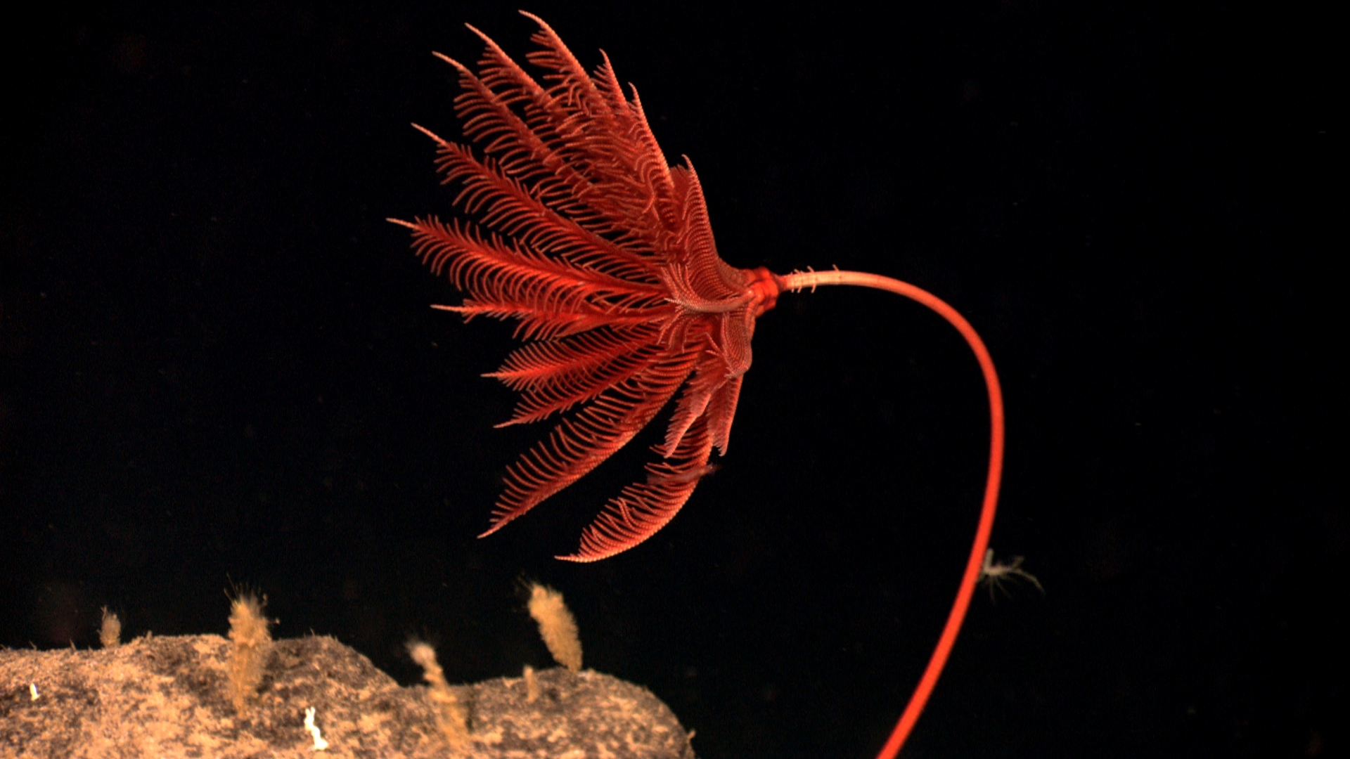 A red stalked sea lily crinoid (Proisocrinus ruberrimus). This region has a spectacular diversity of crinoids. Image ID: expl5403, Voyage To Inner Space - Exploring the Seas With NOAA Collect Photo Date: 2010 July 2 Credit: NOAA Okeanos Explorer Program, INDEX-SATAL 2010